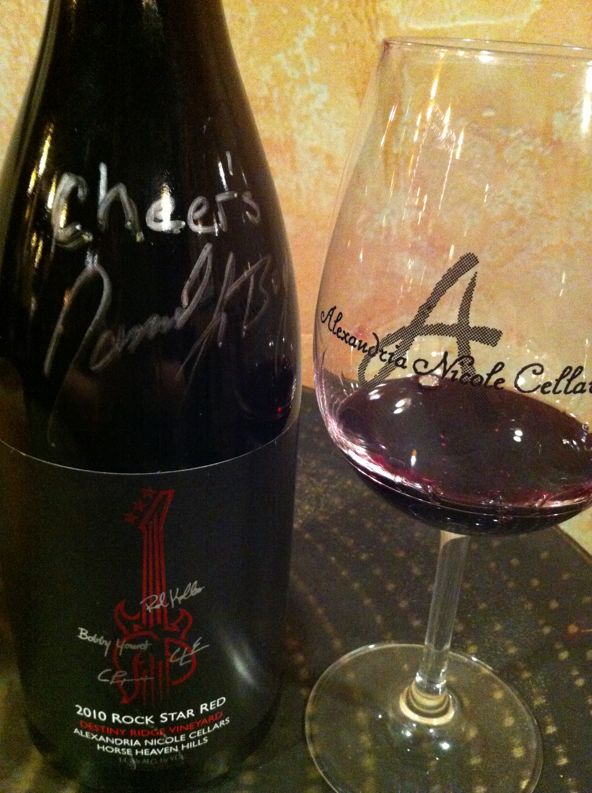 Red blend from Washington Winery Alexandria Nicole Cellars featuring the signature of winemaker Jarrod Boyle